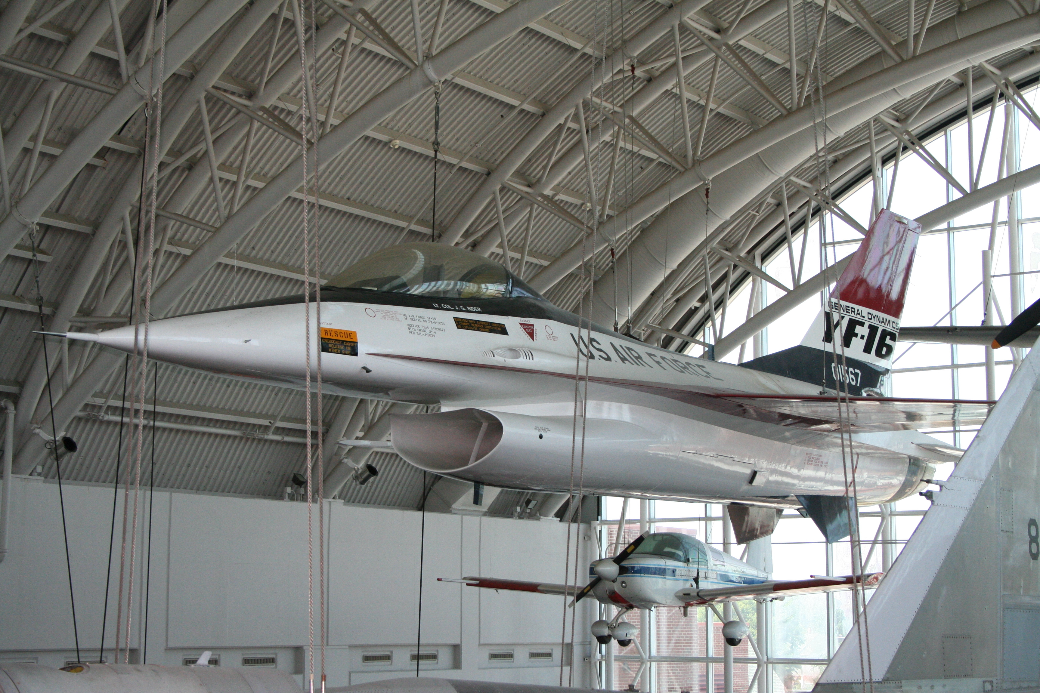 General Dynamics YF-16 on display at the Virginia Air and Space Center in Hampton Virginia